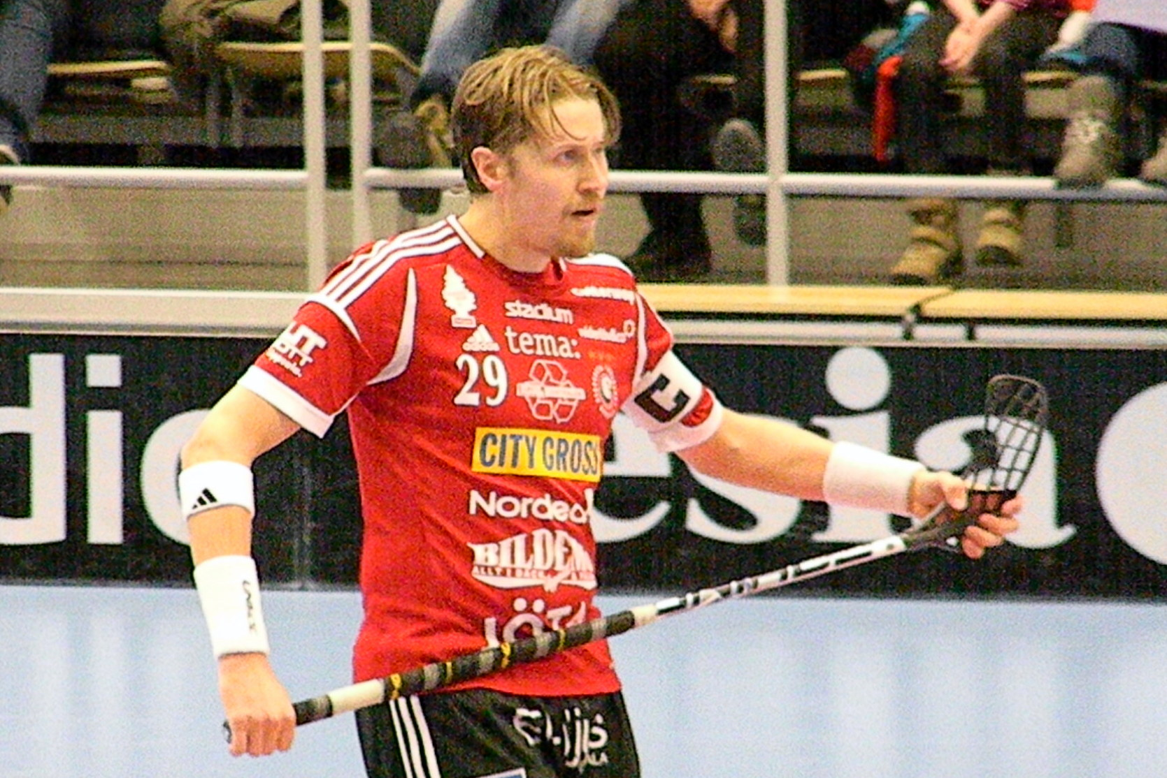 Mika Kohonen, a floorball player from Finland